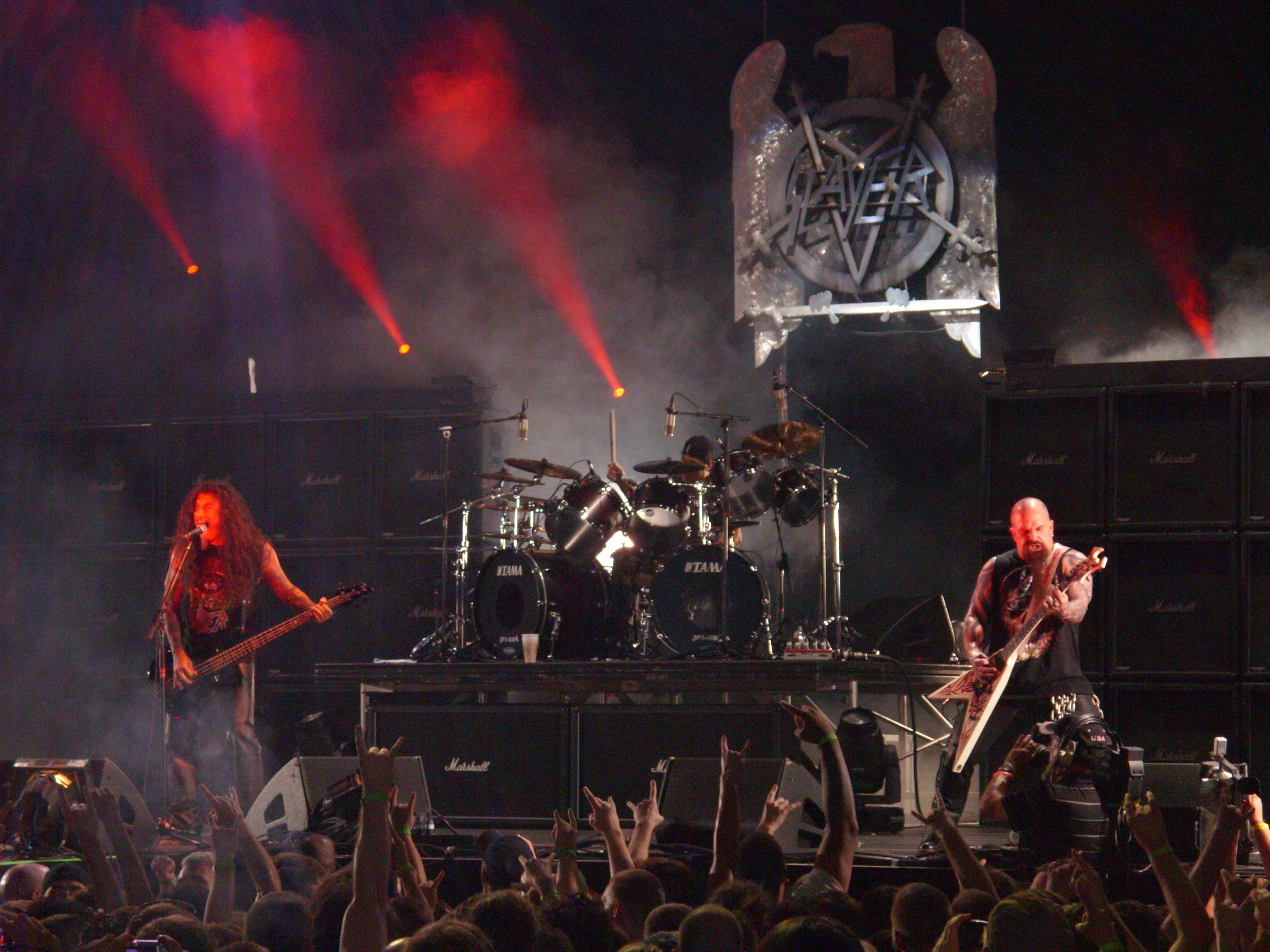 Mayhem fest 2009